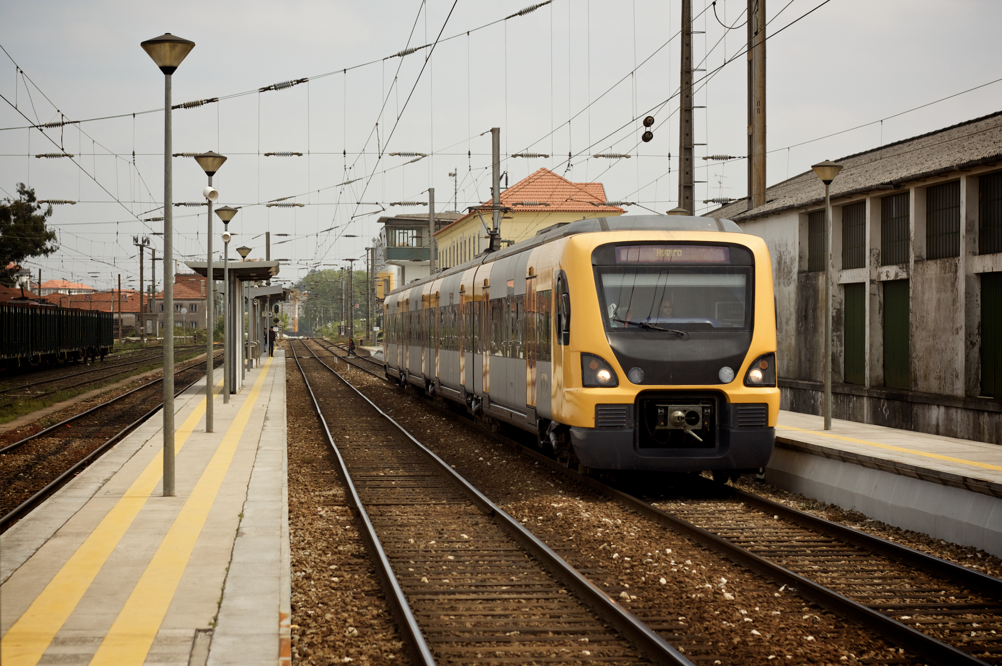 Suburban train no. 15725/4 (Porto • São Bento to Aveiro) of train type 3400 at Vila Nova de Gaia train station; Portugal